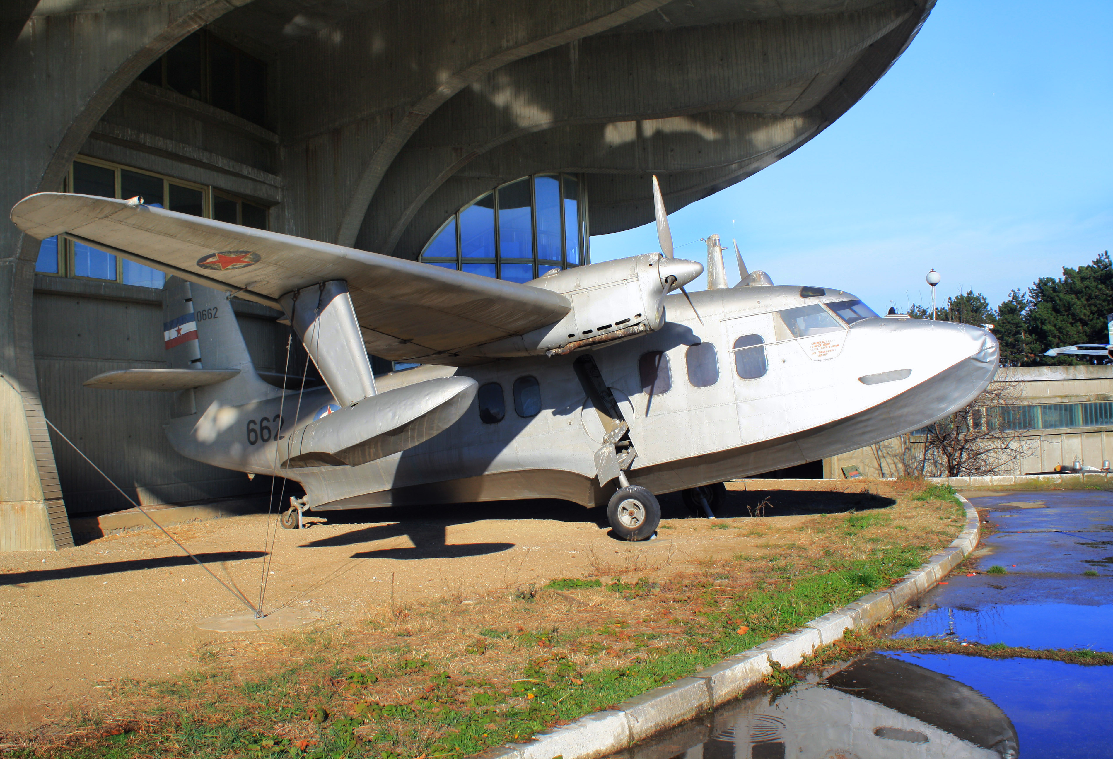 Short SA-6 Sealand Mk.I of Yugoslav Air Force on display at Belgrade Aviation Museum.